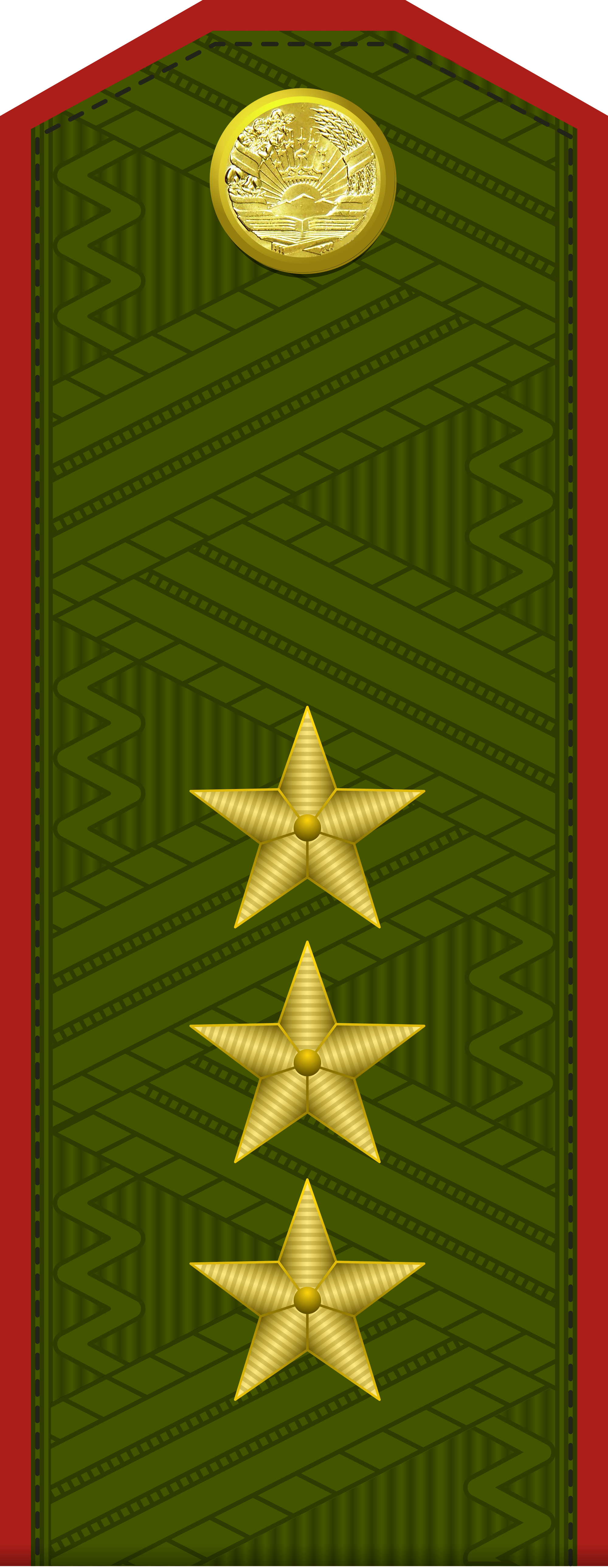 Rank insignia of Colonel general for the Tajikistan Army